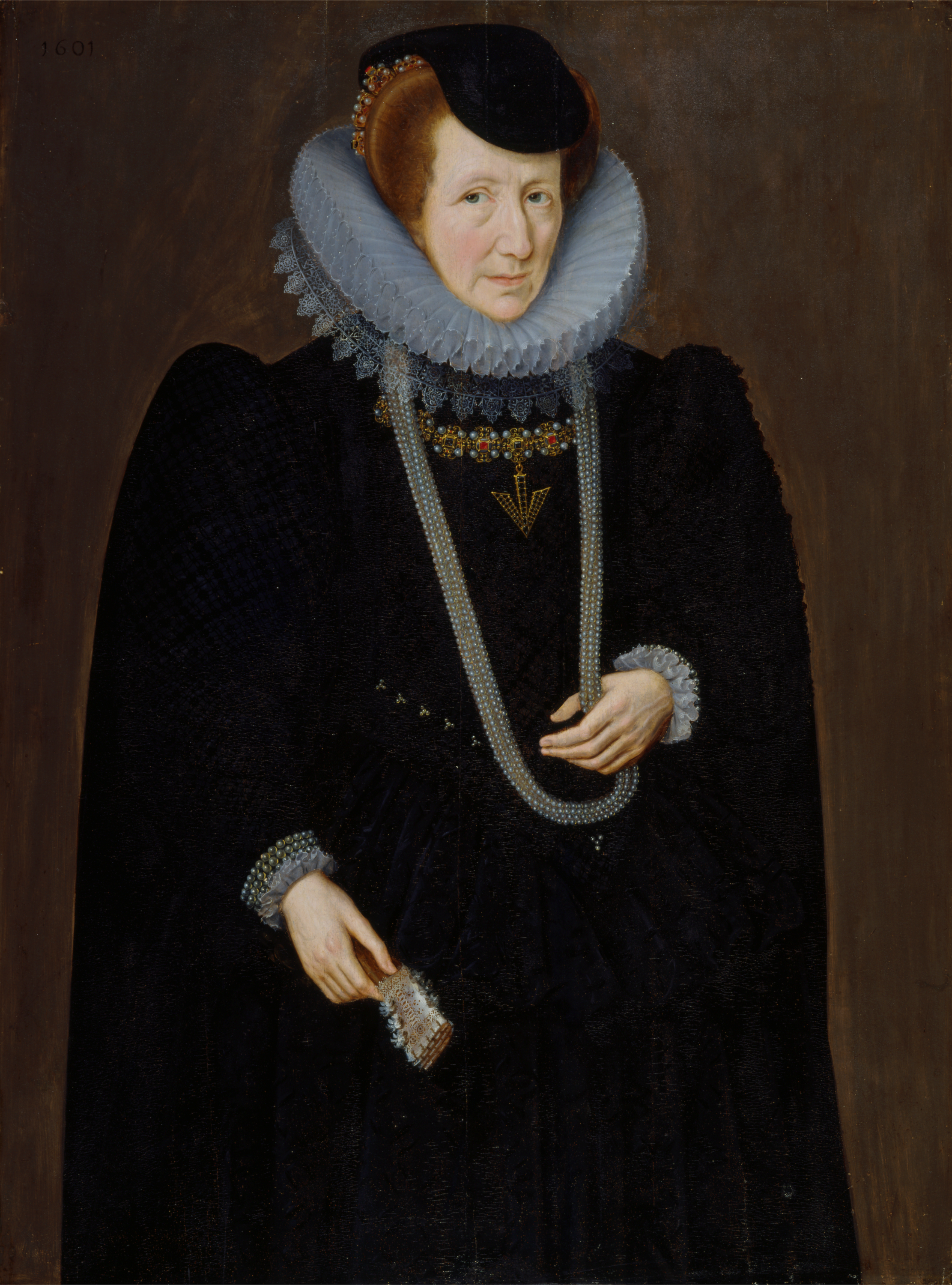 Probably Mary, Lady ScudamoreAlternative title(s): Portrait of a Woman, probably Eleanor Packington, Lady Scudamore